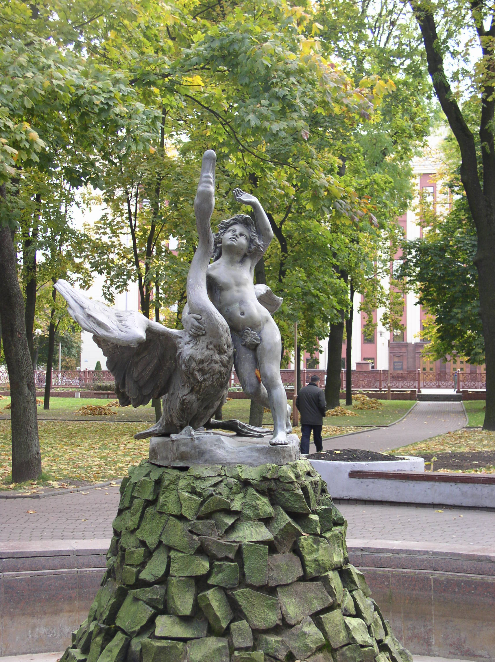 Fountain with sculpture group "Boy with a swan", Theodor Erdmann Kalide, Minsk, Belarus.